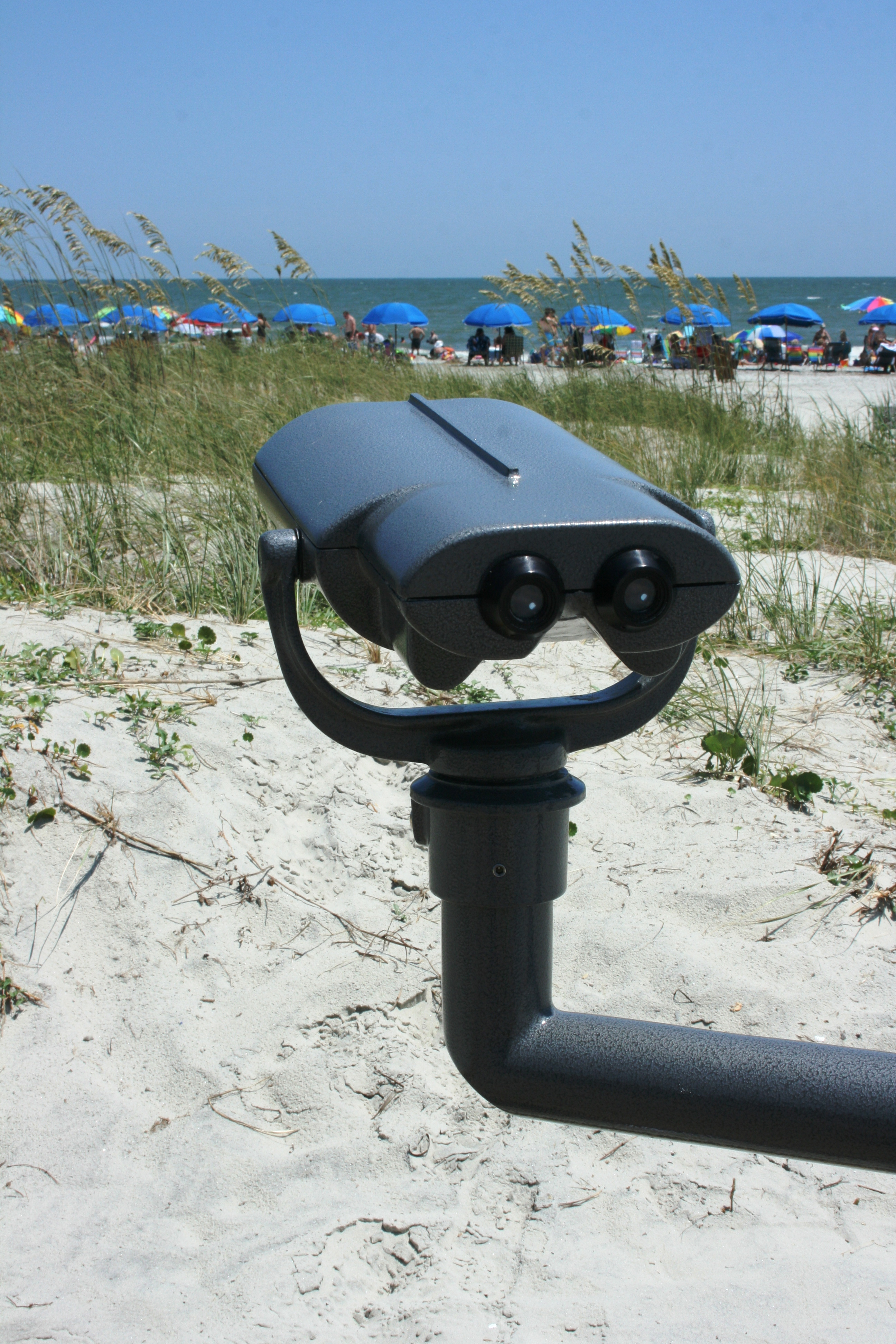 The beach on Hilton Head Island, South Carolina.